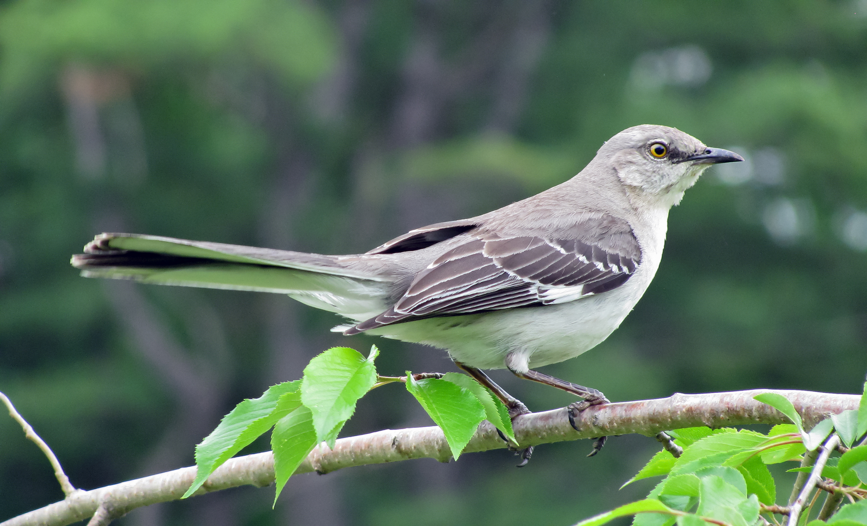 An adult Mimus polyglottos en (commonly known as a Northern Mockingbird) perching on a Weeping cherry tree in New Hampshire.